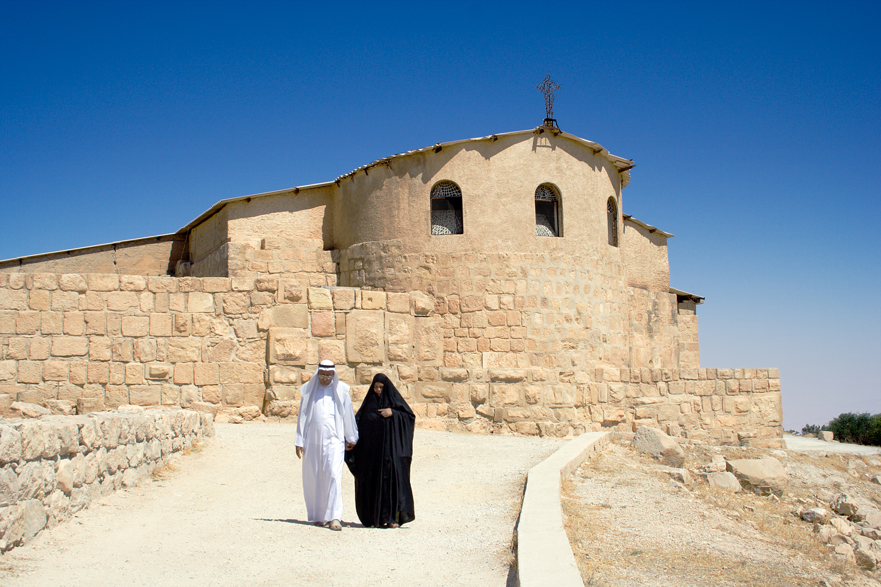 The structure atop Mount Nebo, Jordan, that protects the excavated remains of the Basilica of Moses.